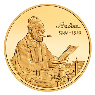 Swiss Commemorative Coin 2010 CHF 50 obverse